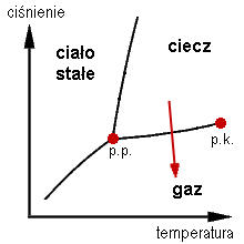 Evaporation